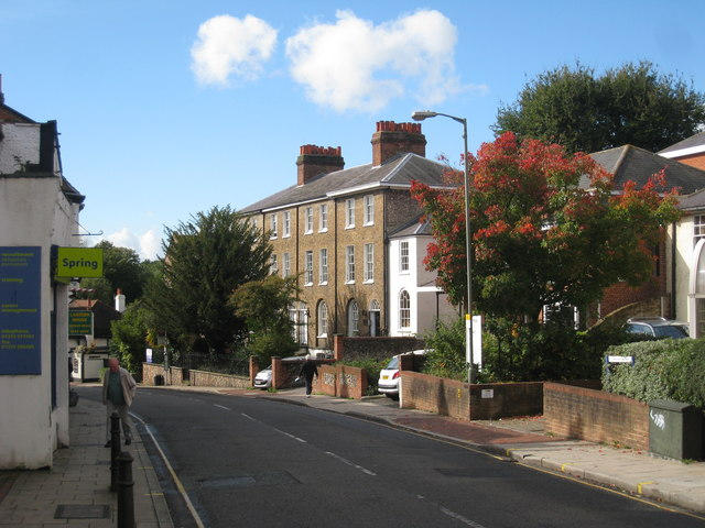 Bridge Street